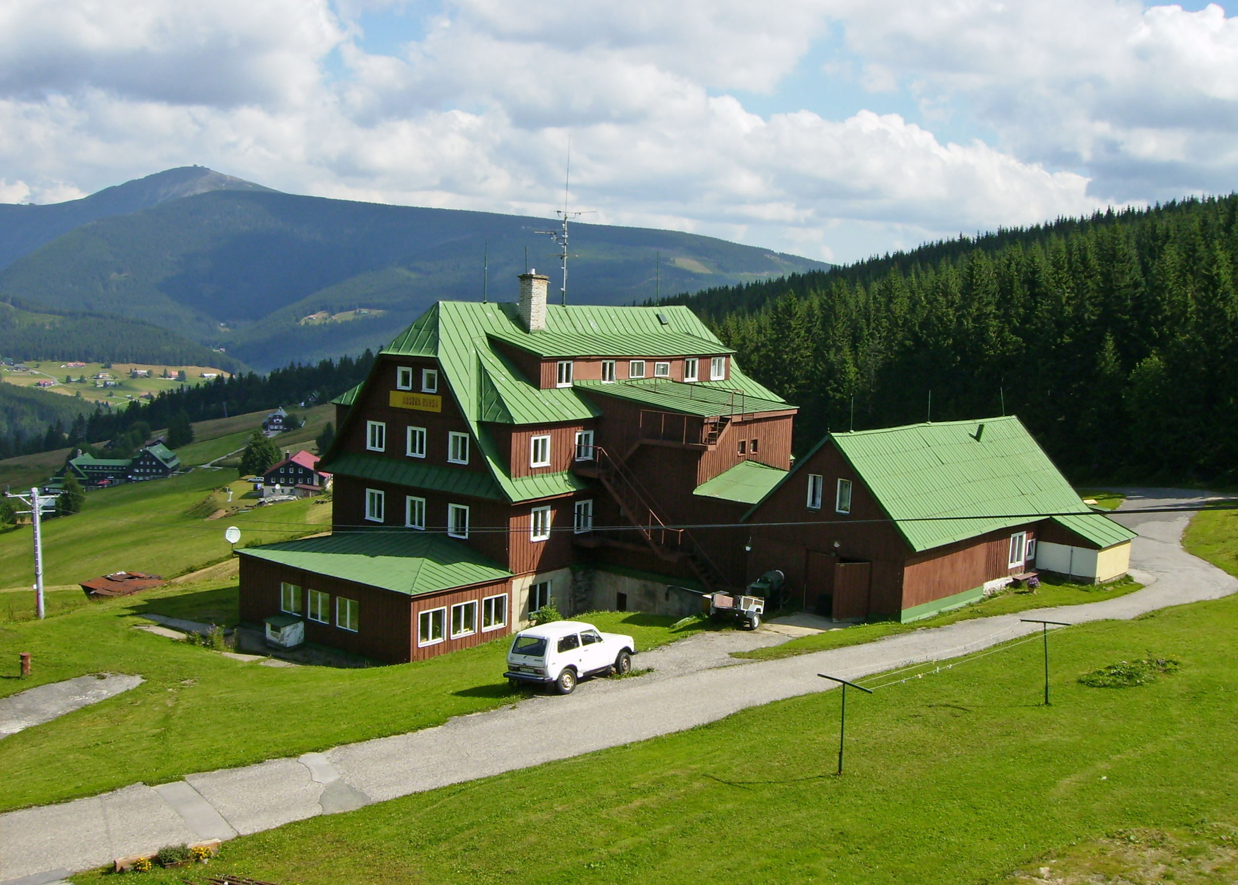 Husova bouda in Krkonoše Mountains, Pec pod Sněžkou, Czech Republic